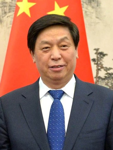 Chief of Staff of the Presidential Executive Office Sergei Ivanov and Director of General Office of Chinese Communist Party Li Zhanshu before the Second Russia-China Media Forum.